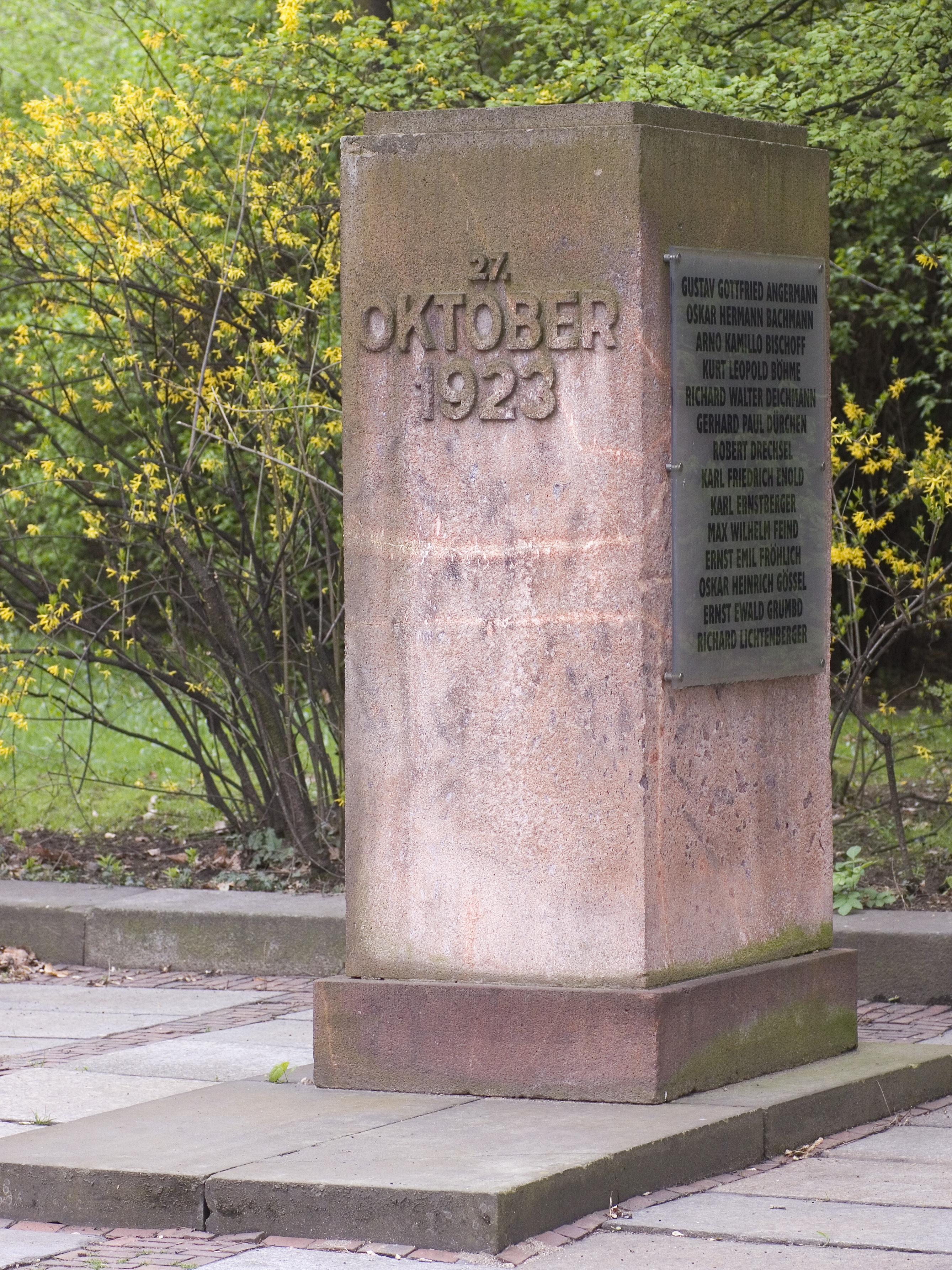 Freiberg, Saxony, monument to demonstrators shot by the Reichswehr on 27 october 1923